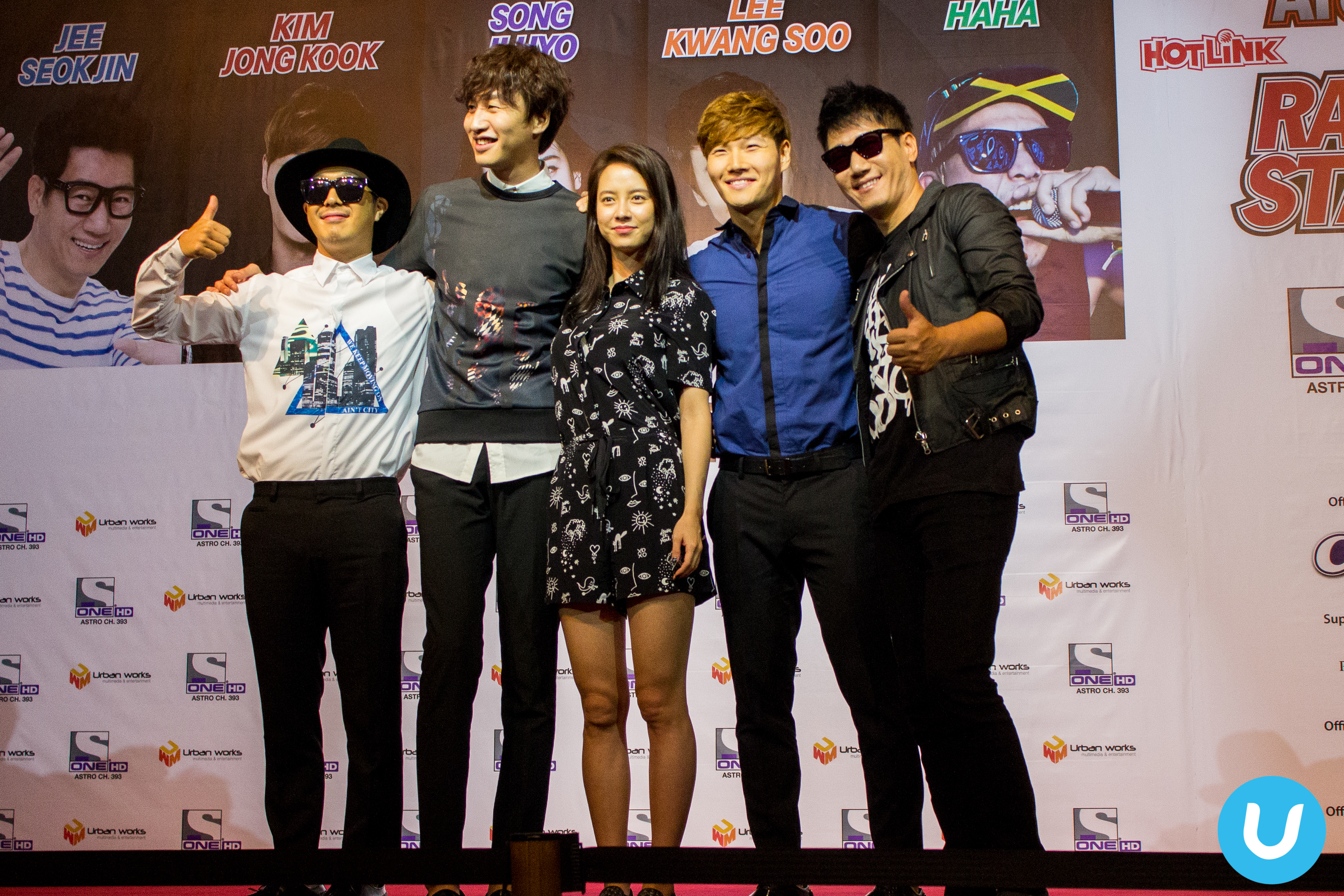 Running Man Cast at Malaysia for Fan Meeting Asia Tour 2014